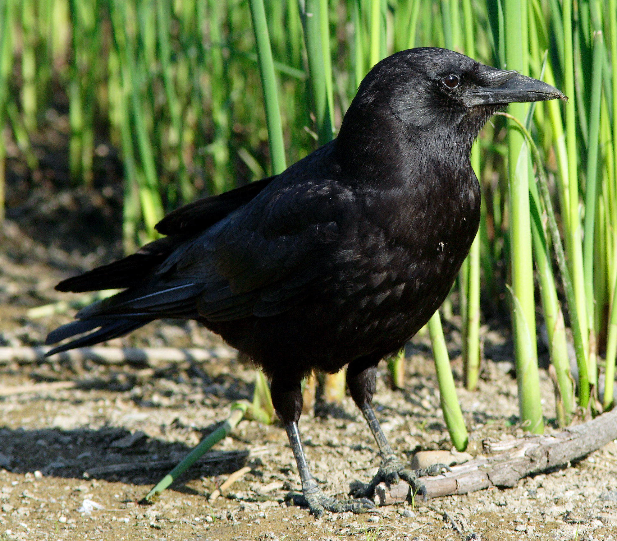 A Northwestern Crow (Corvus caurinus), standing sand next to a pond in Vancouver, BC.